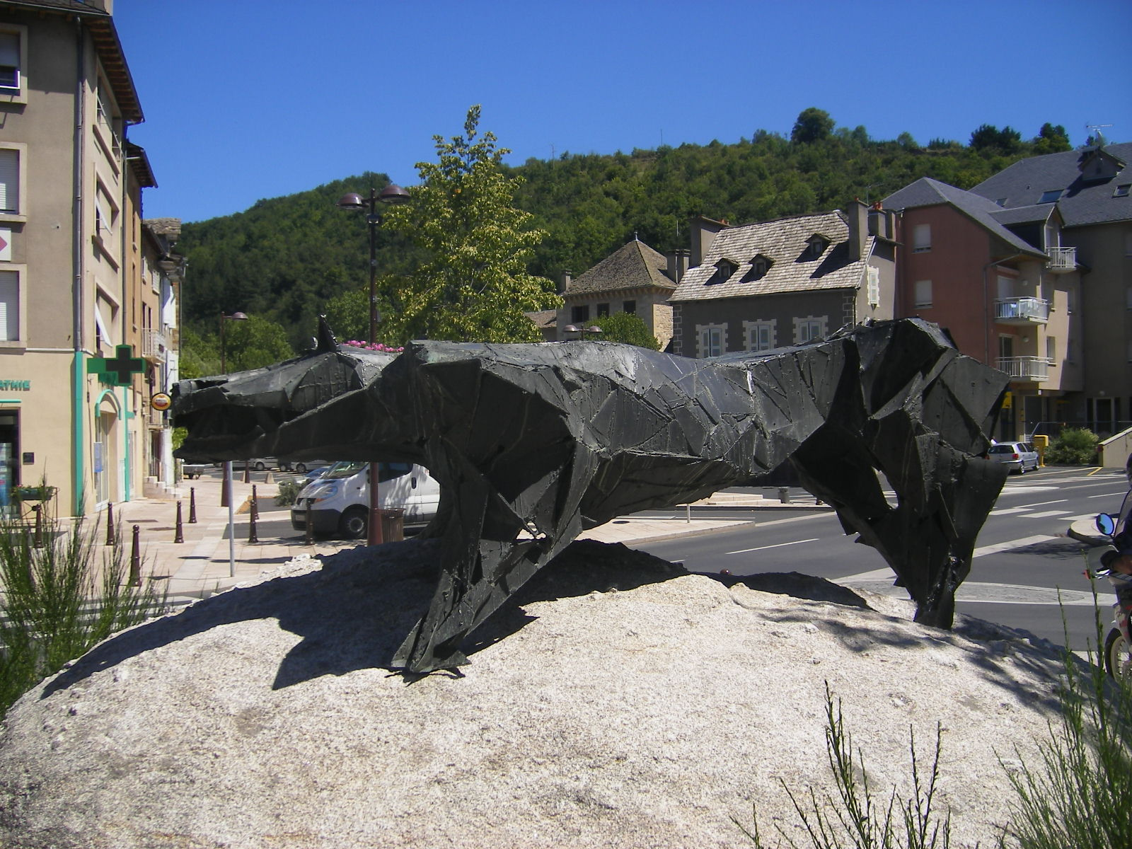 Beast of Gévaudan, Marvejols